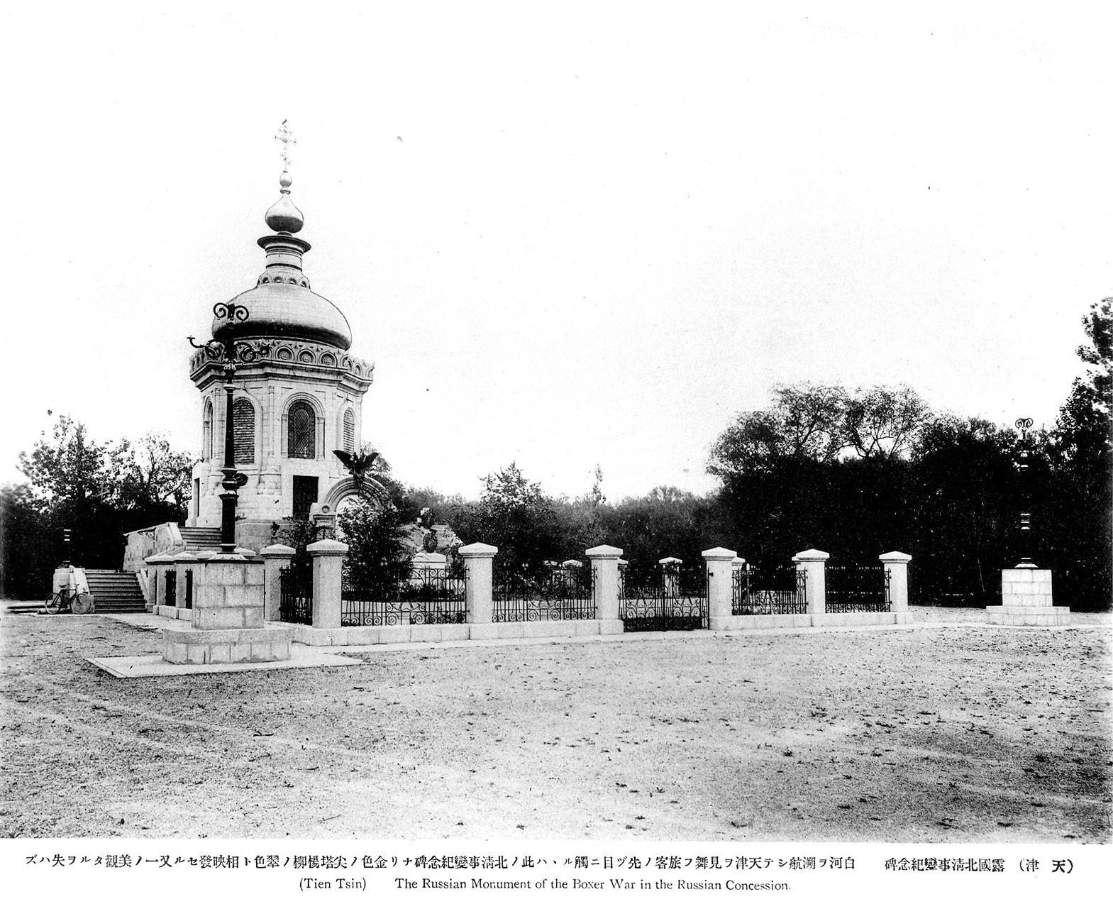 Orthodox church of St. Savior in Tienjin